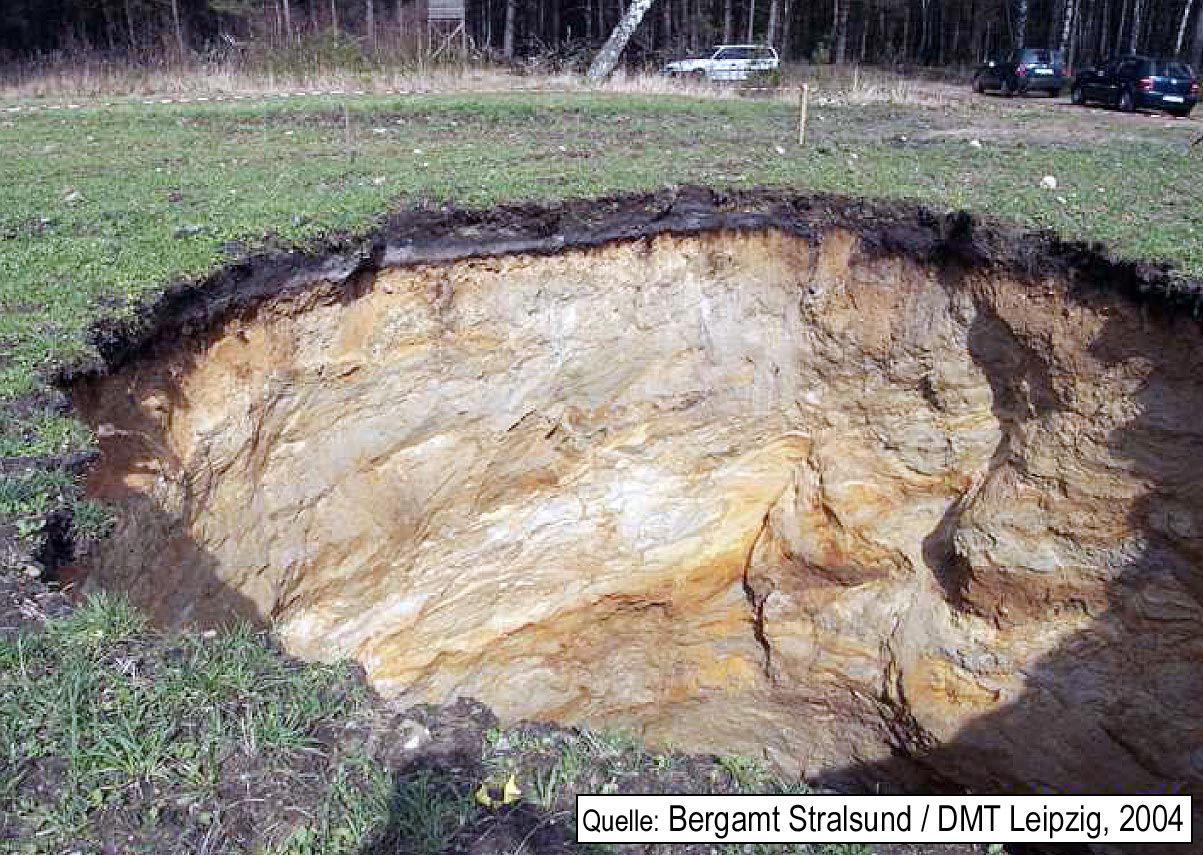 Collapse mine tunnel to the west of № VI Conow adit.